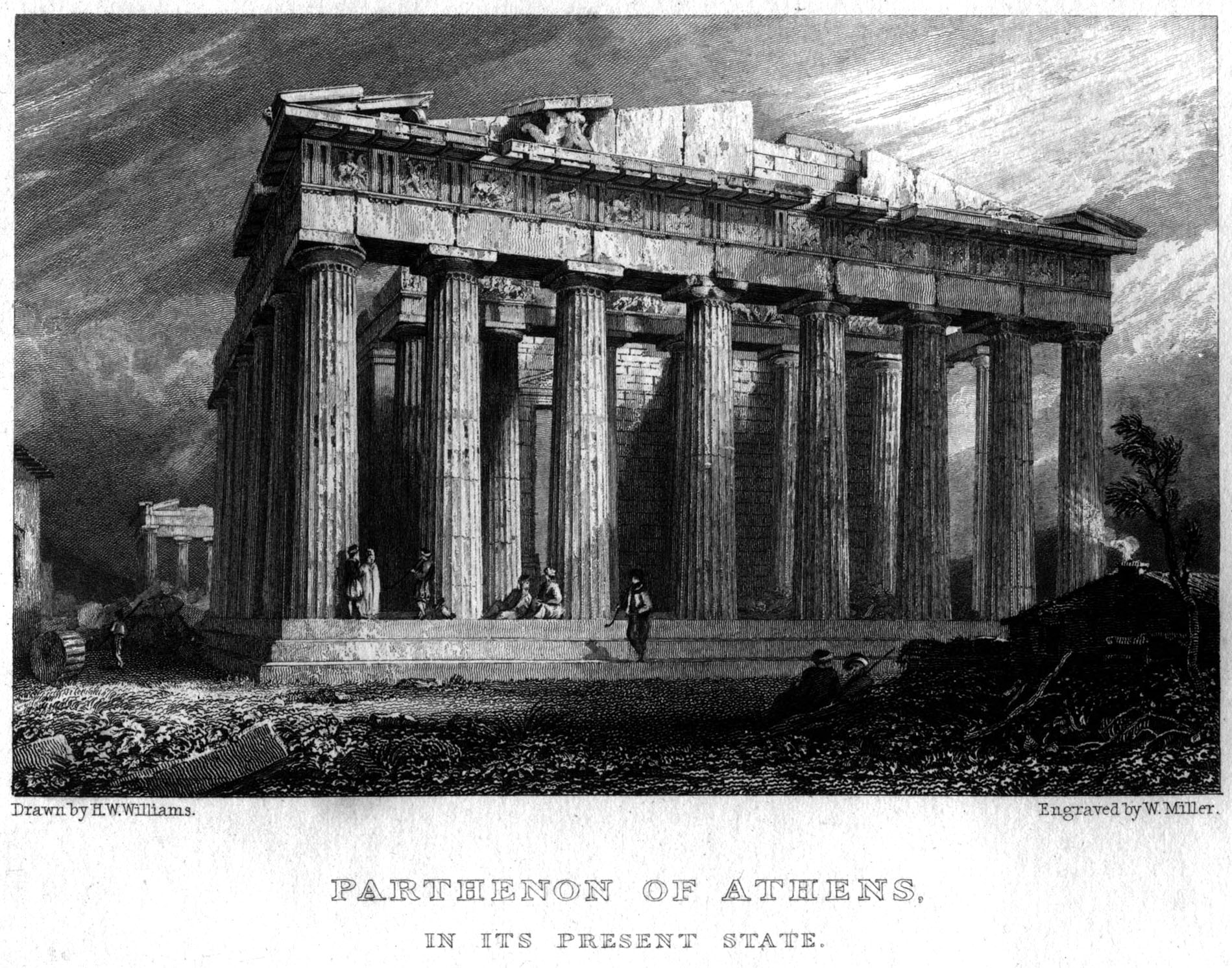 Parthenon of Athens engraving by William Miller after H W Williams (Miller paid £12-12-0 in xii 1822 for engraving), published in Select Views In Greece With Classical Illustrations. Williams, Hugh William. London: Longman Rees Orme Brown and Green; and Adam Black. 1829